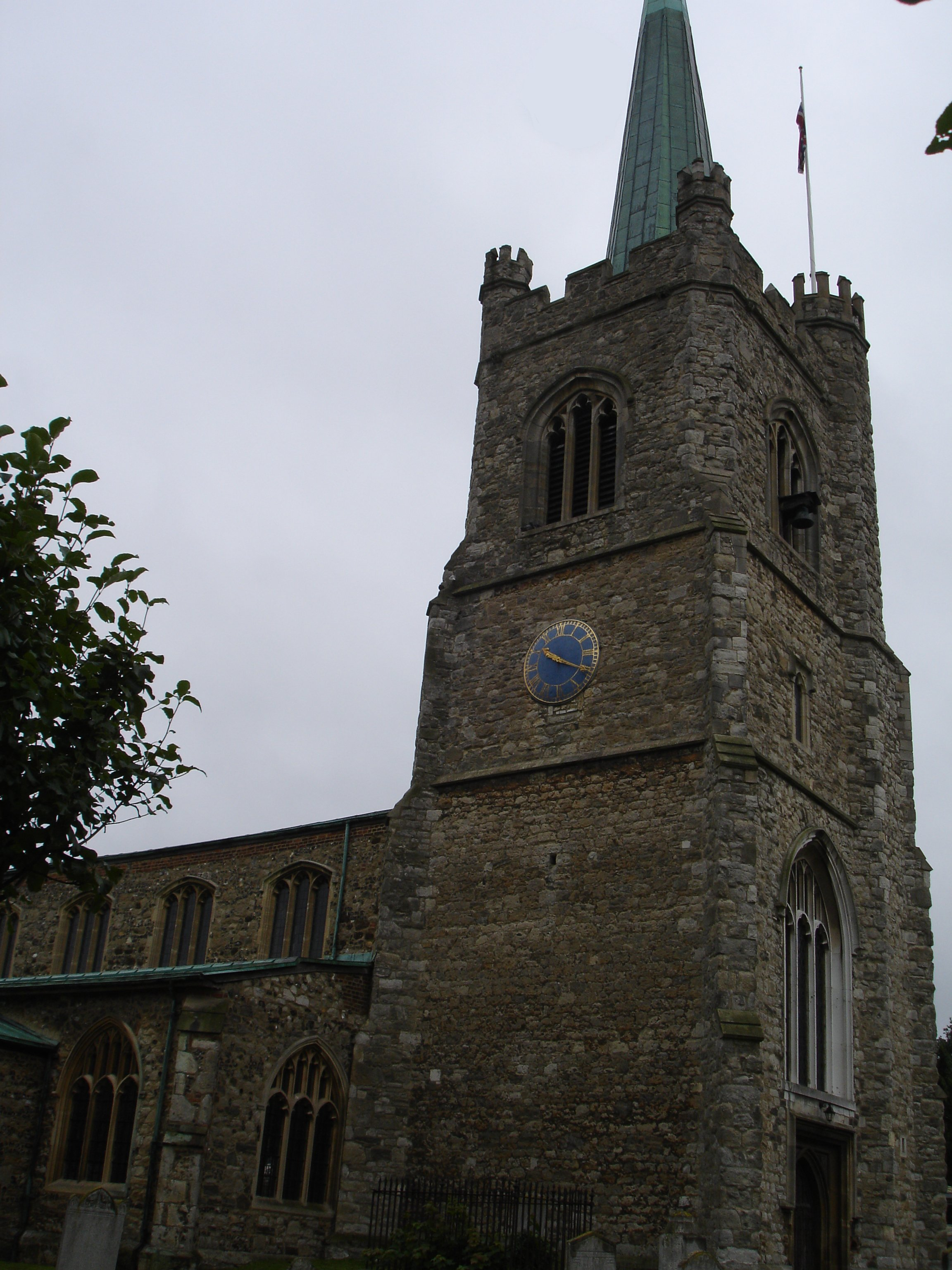 The Church of England Parish Church of Saint Andrew, Hornchurch, Essex, England. Built on the site of earlier priory church of St Nicholas and St Bernard.